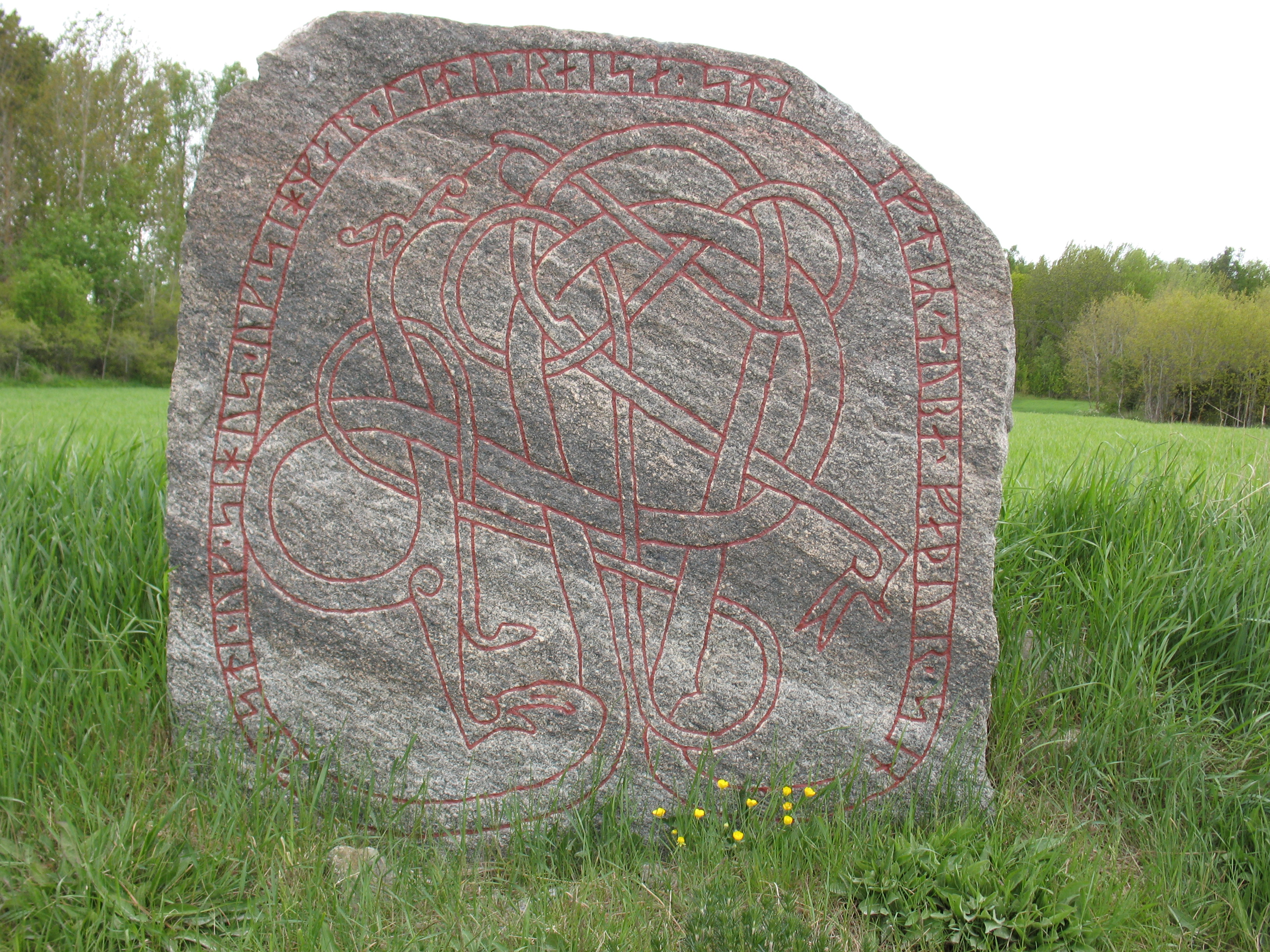 runestone U 232, Gällsta, Vallentuna.